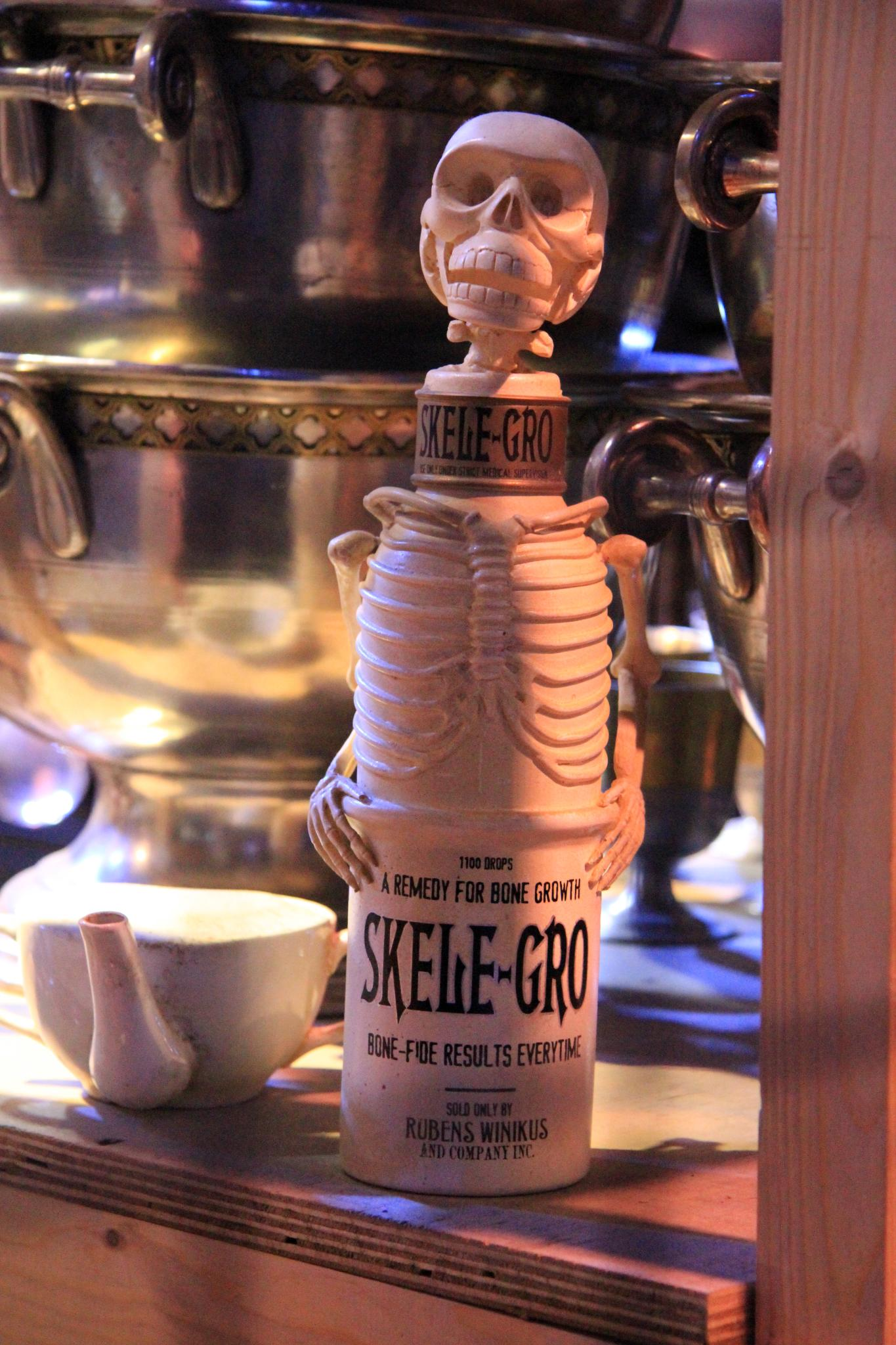 Warner Bros. Studio Tour London: The Making of Harry Potter.